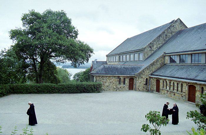 New Landévennec Monastery